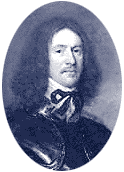 Sir Arthur Haselrig (1601-1661)